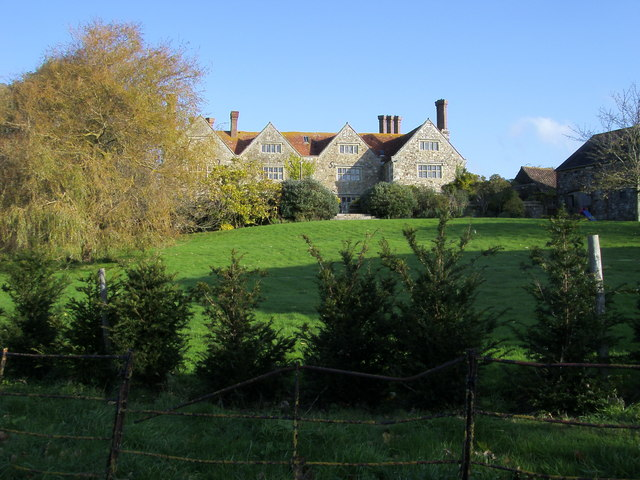 Yaverland Manor Yaverland Manor beside the church off Yaverland Road